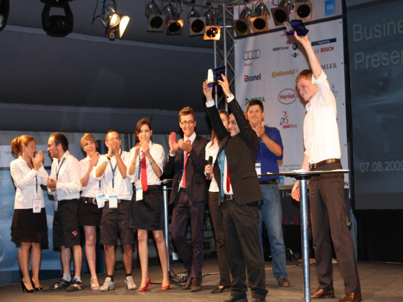 hockenheim 2009